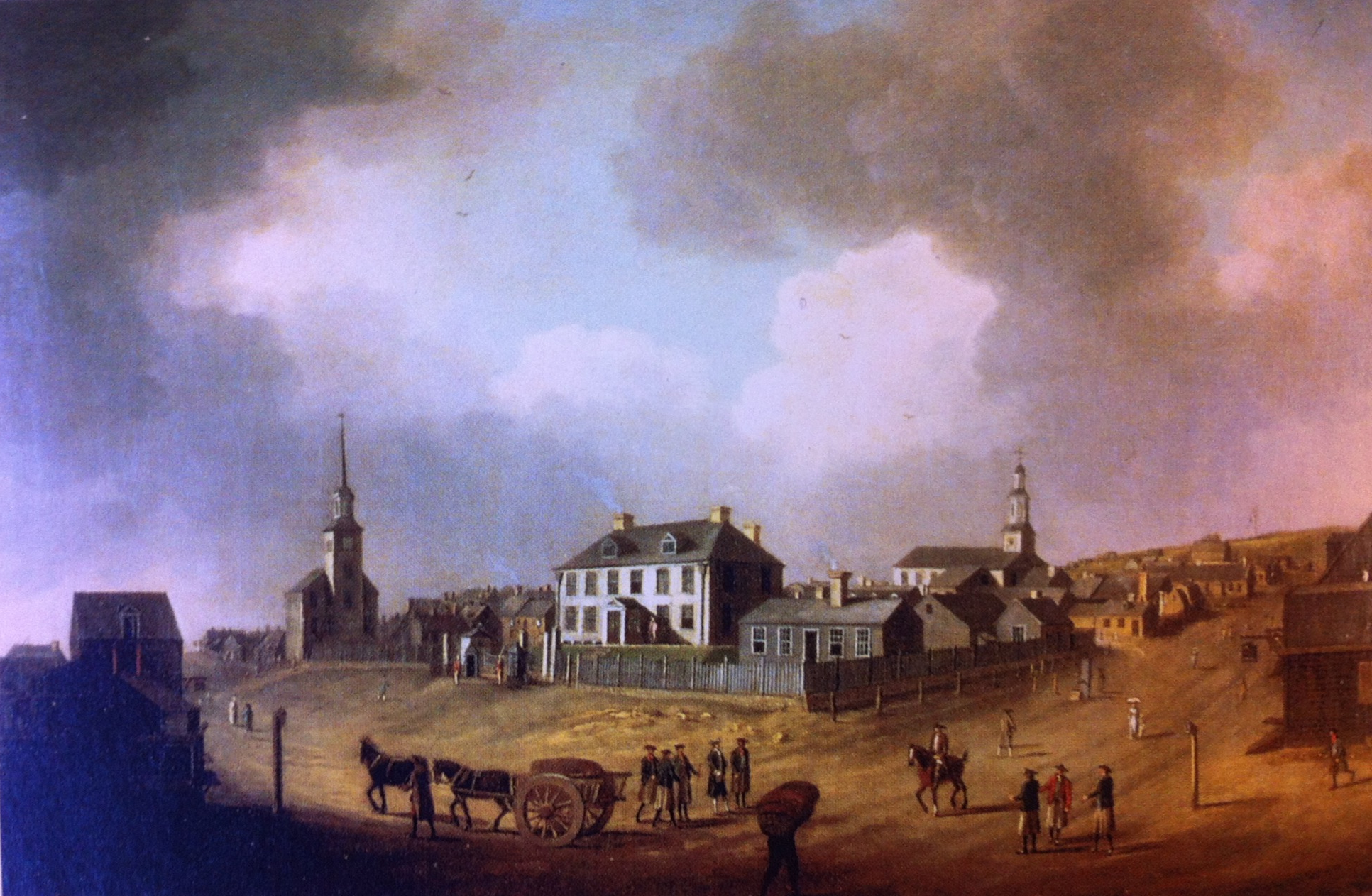 Halifax c. 1762 by Dominic Serres